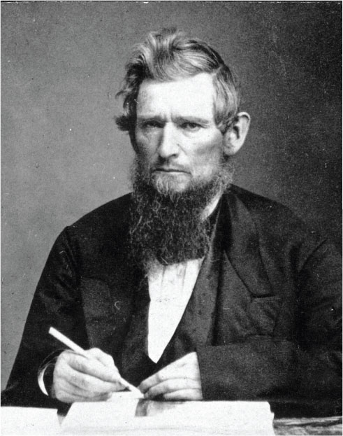 Ezra Cornell, co-founder of Cornell University. Division of Rare and Manuscript Collections, Cornell University Library.